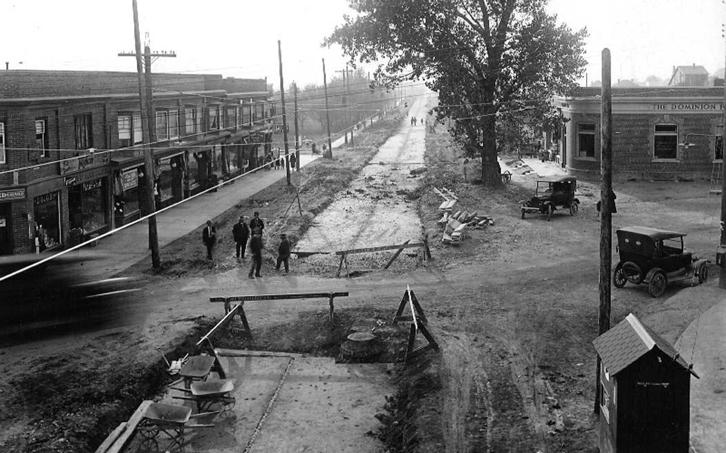 Township of York, Eglinton Avenue, looking west, from Dufferin and Vaughan. Now Toronto, Canada.